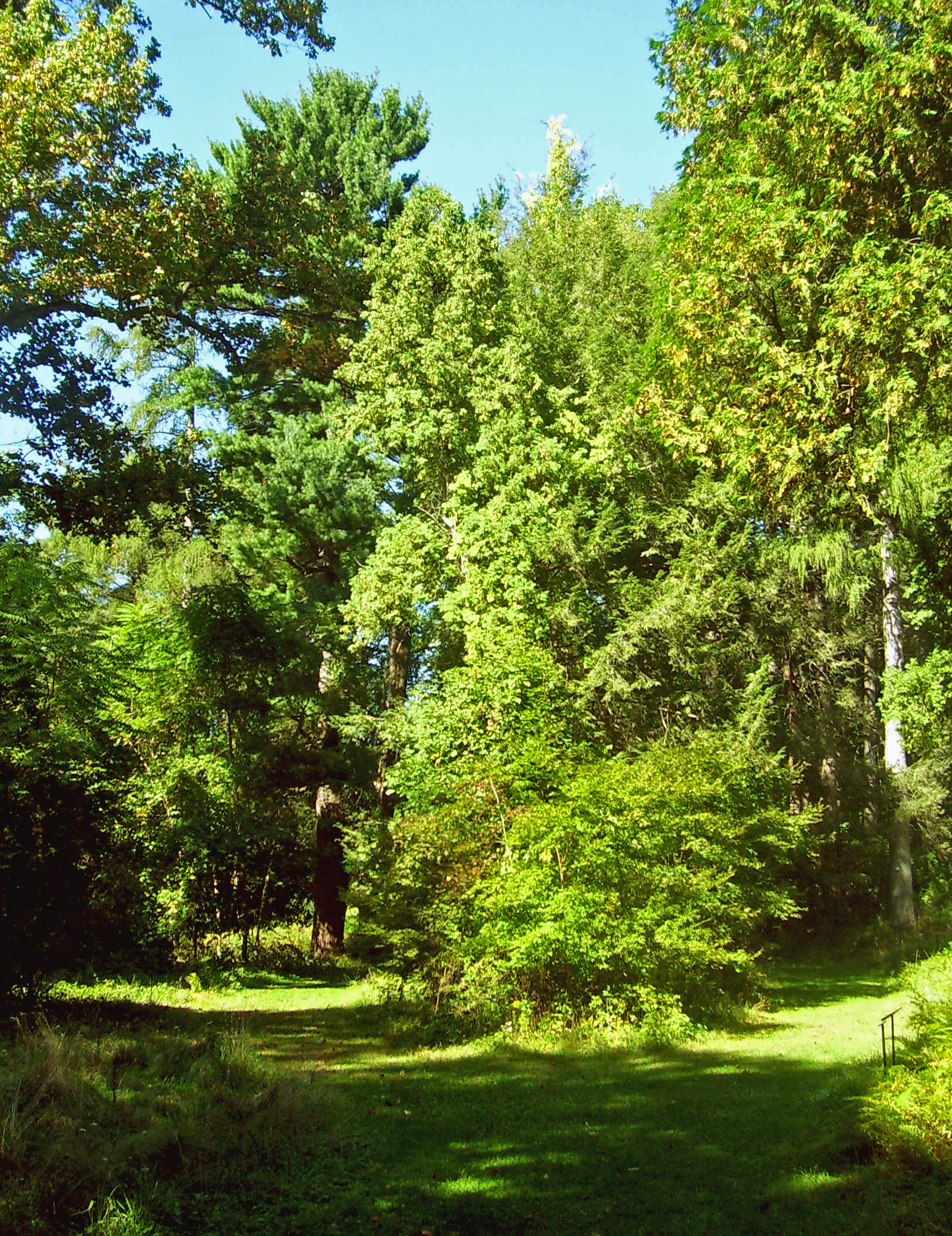 Landscape near former cottage site at Springside, Poughkeepsie, NY, USA